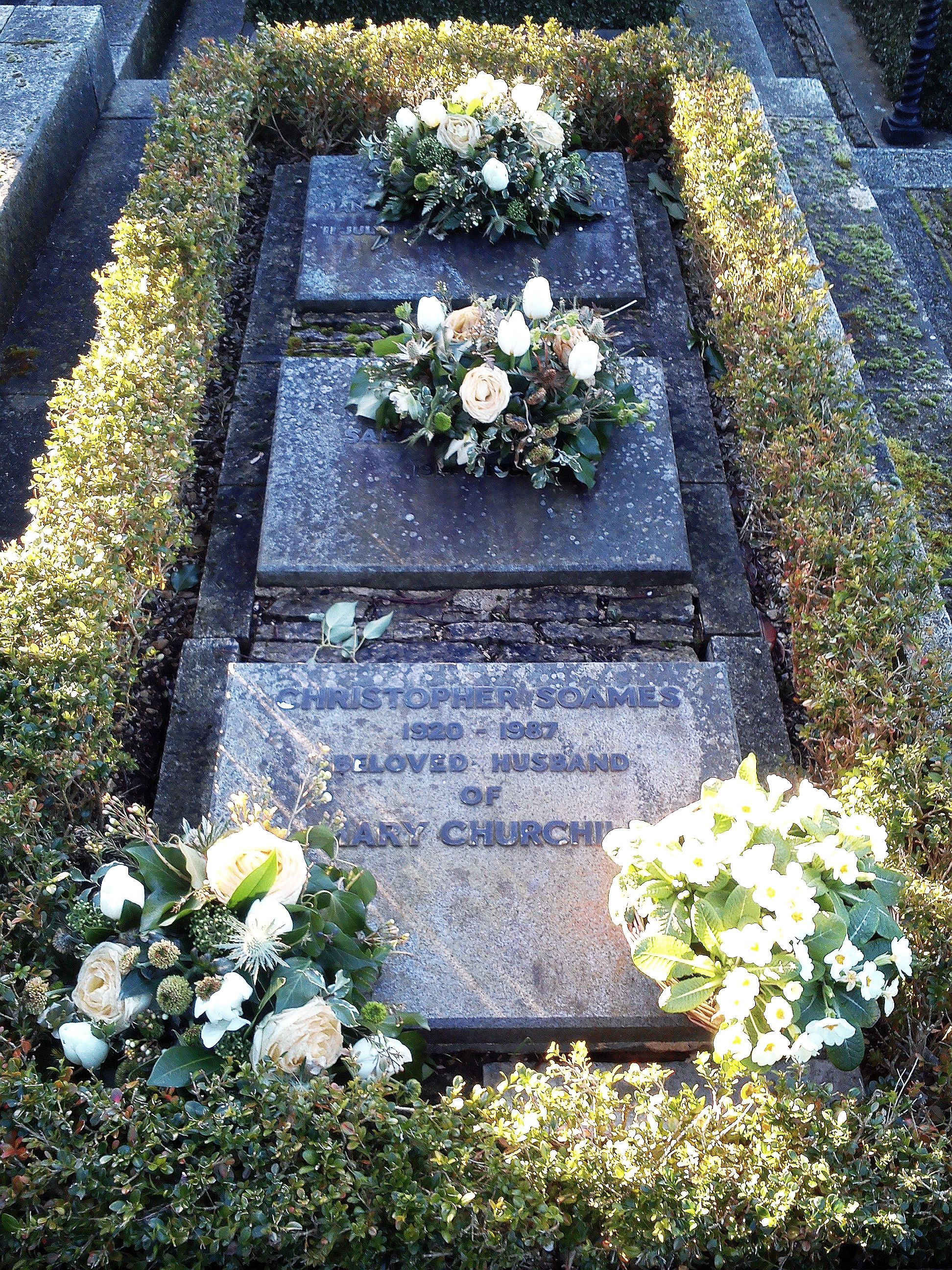 Bladon, Oxfordshire - St Martin's Church - churchyard, grave of Prime Minister Churchill's daughters and son-in-law Lord Soames